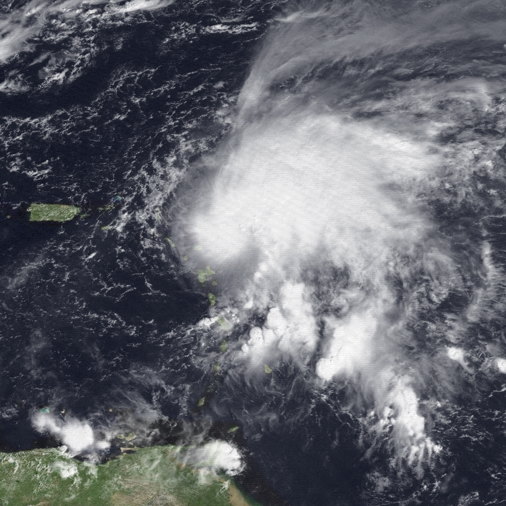 Hurricane Klaus at peak intensity passing through the Leeward Islands on October 5, 1990